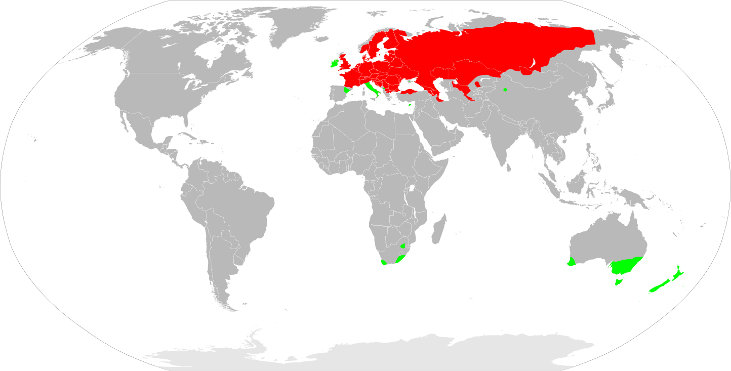 European Perch (Perca fluviatilis) distribution map. Red: approximate range where they live naturally. Green: introduced non-native populations.